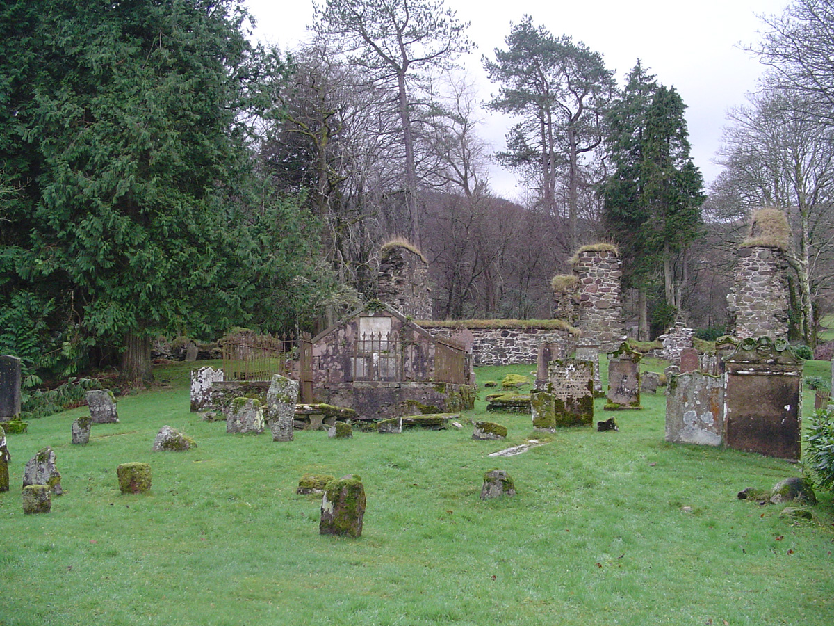 Took this photo myself in 2004